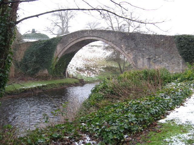 The auld Brig o' Doon